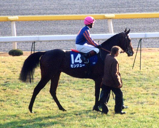 Montjeu